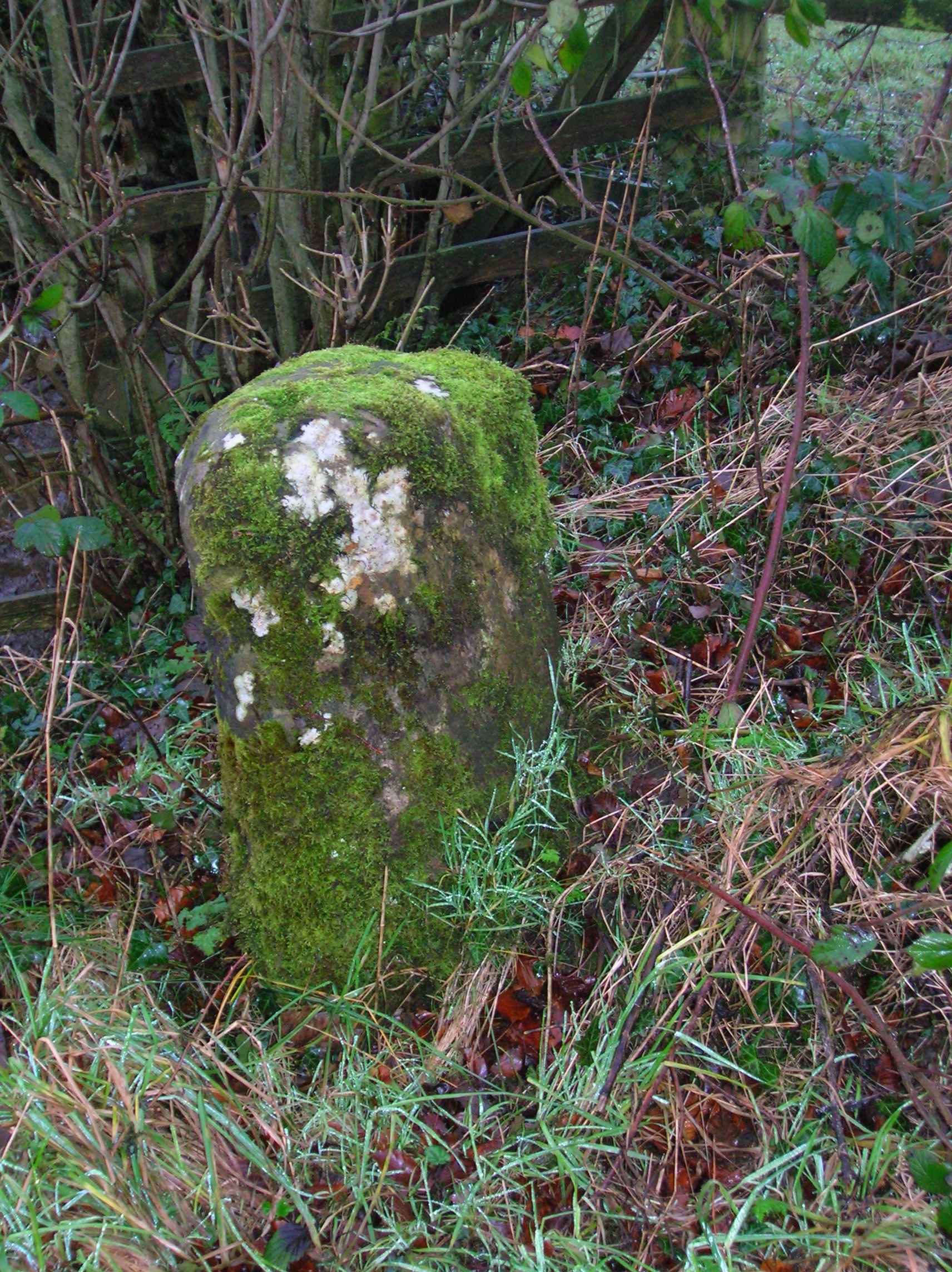 Milestone near West Balgray, Irvine, North Ayrshire, Scotland.